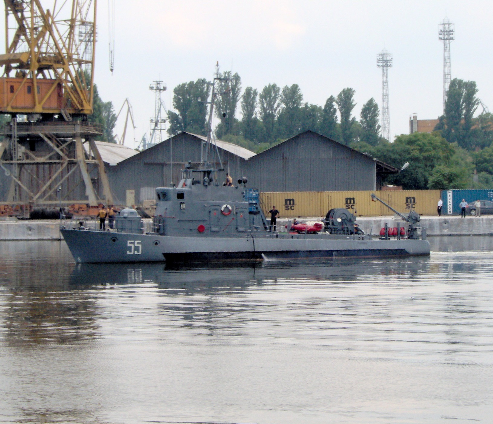 The Bulgarian built project 1259.2 “Malakhit” Bulgarian minesweeper №55 in Varna.